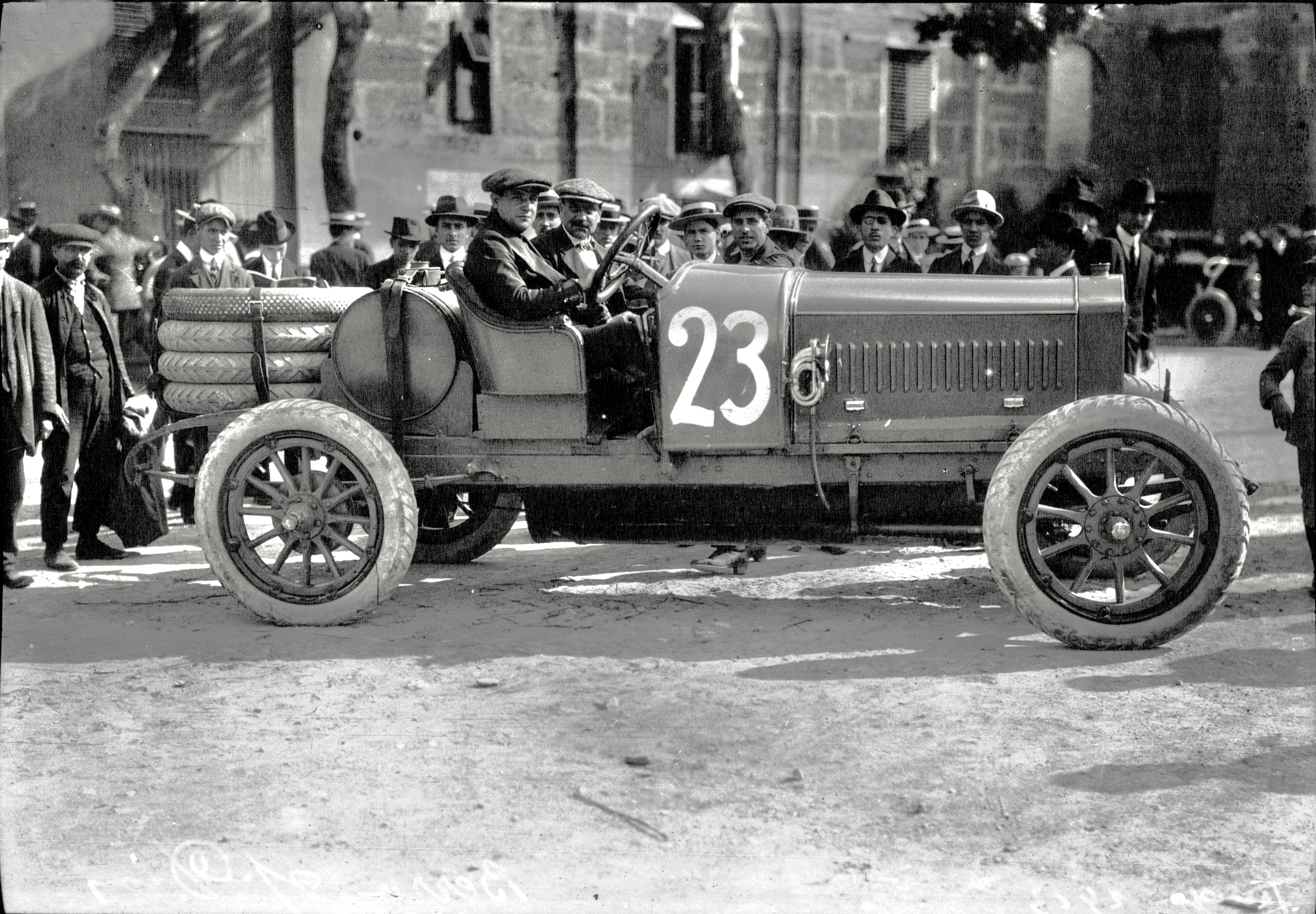 A. Berra in his De Dion at the 1913 Targa Florio.